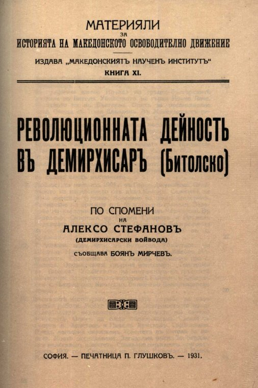 Alexo Stefanov's Memoirs